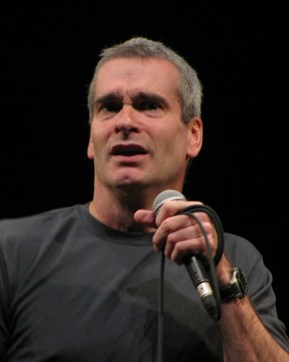 Henry Rollins at Bronson Centre, Ottawa, Ontario, Canada, 2010